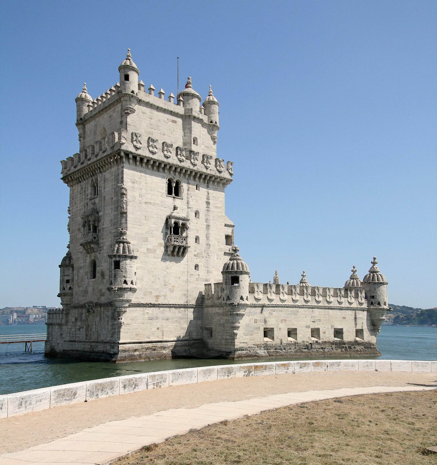 Description: Belém Tower (in Portuguese Torre de Belém, pron. IPA: ['toɾ(ɨ) dɨ bɨ'lɐ̃ĩ]) is a fortified tower located in the Belém district of Lisbon, Portugal.